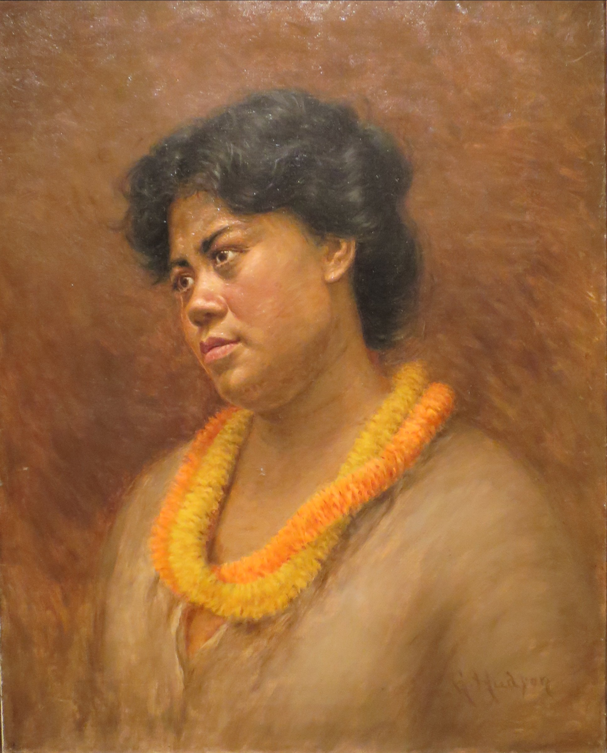 Hapa Haole (No. 206) by Grace Hudson, 1901, oil on canvas, 20 × 16 in, private collection